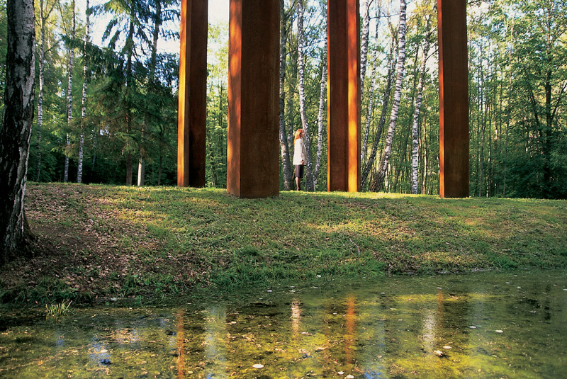 The Place by Gintaras Karosas in Open Air Museum of the Centre of Europe. Image for Wikipedia provided by Open Air Museum of the Centre of Europe , 2006. 800x535 pixels. True Color (24 bit). 1284000 Bytes.